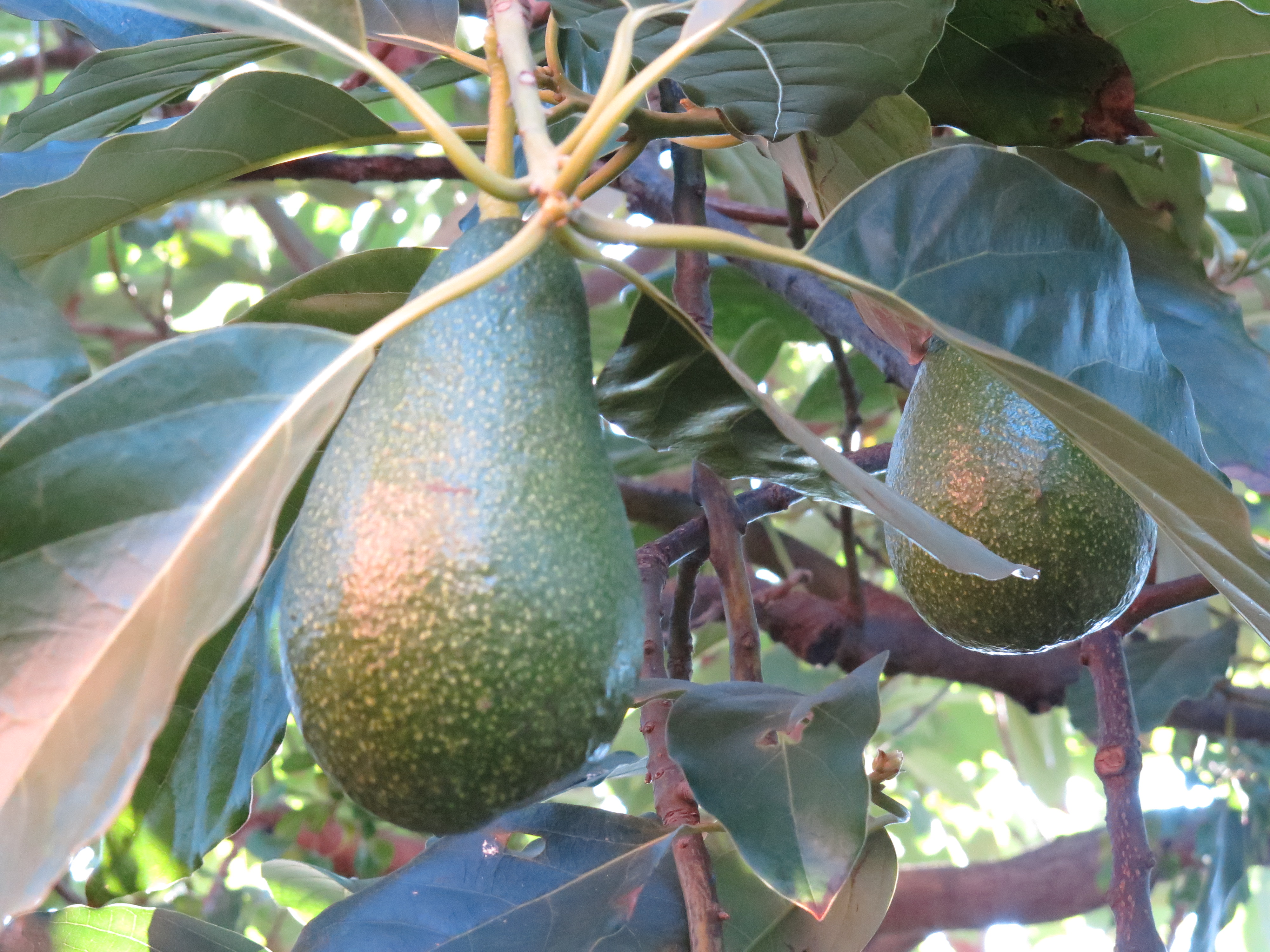 Persea americana fruits in January in Rome